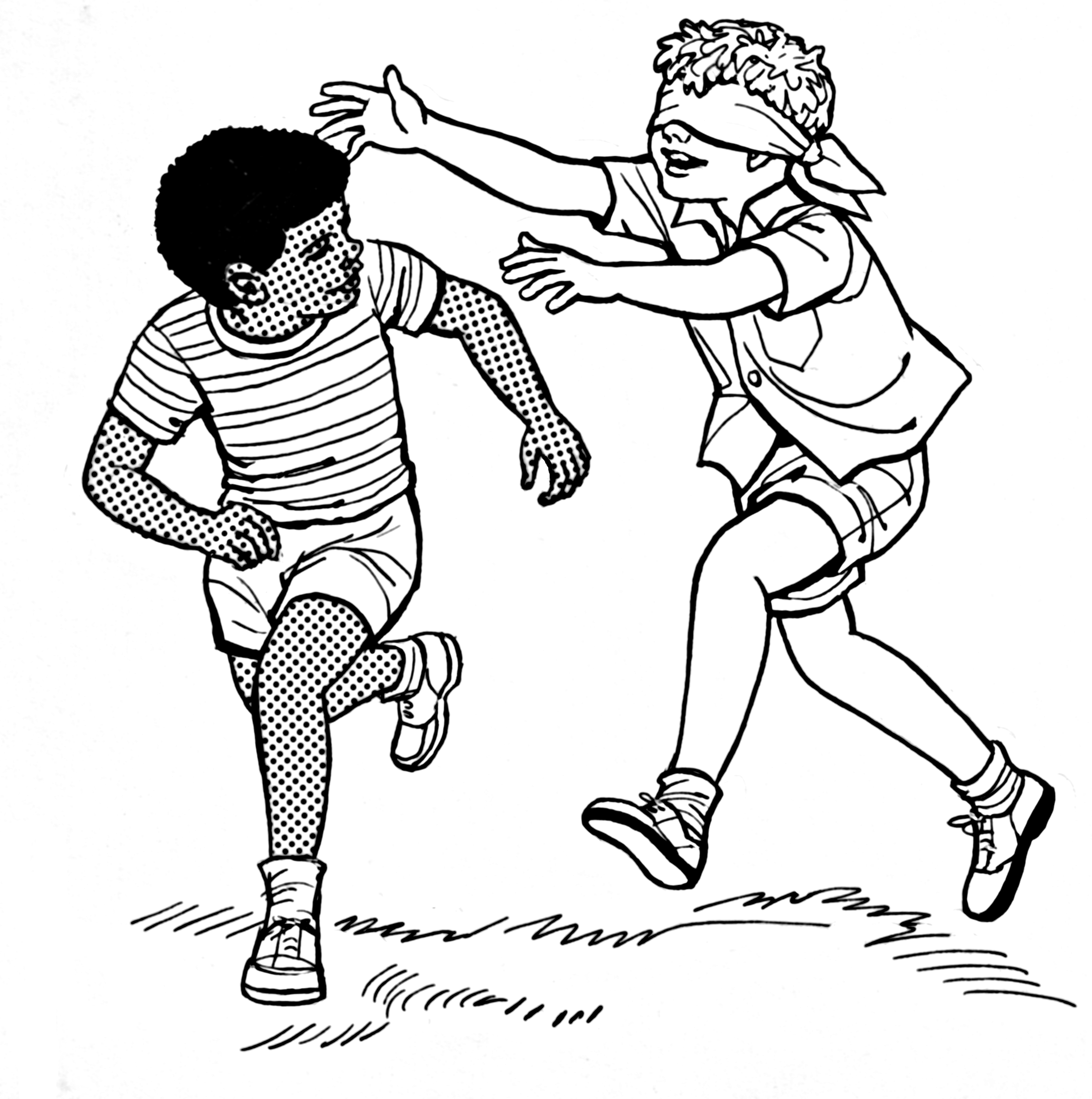 Blindfolded boy chasing another.